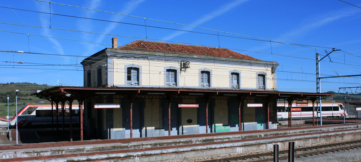 Railway Station "Villabona de Asturias", Villabona, Llanera, Asturias, Spain